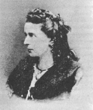 Photograph of Maryana Marrash (1848-1919), Syrian poet and writer.